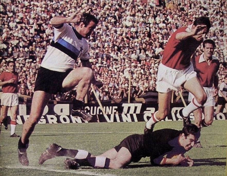 Mantua (Italy), "Danilo Martelli" Stadium, June 1, 1967. A.C. Mantova — Inter Milan 1-0, Matchday 34 of Italian League 1966–67 Serie A: Inter Milan's midfielder Mario Corso (left) is anticipated by Mantova's goalkeeper Dino Zoff (bottom).